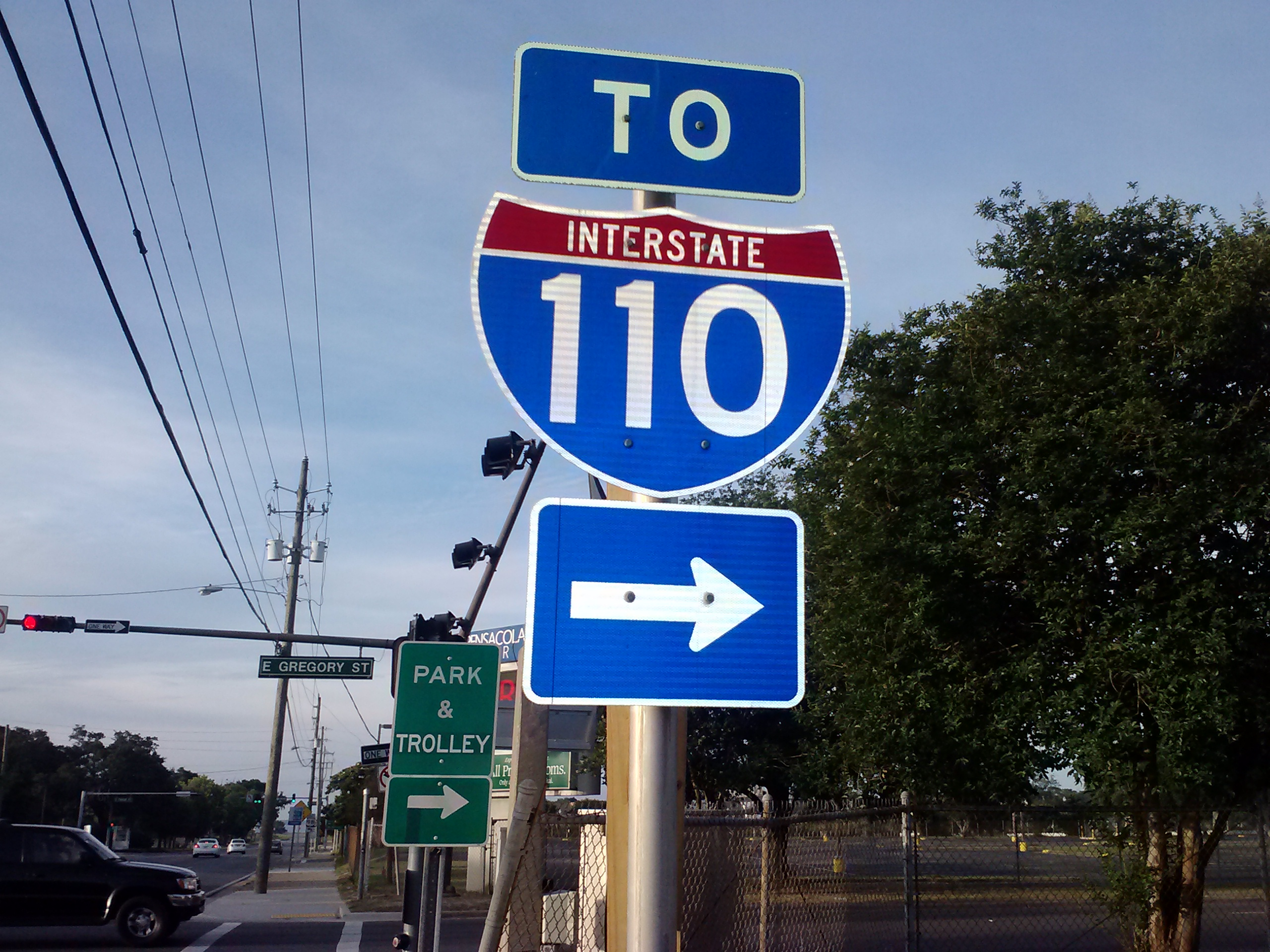 Interstate 110 Shield in Pensacola, Florida, taken May 26, 2013.